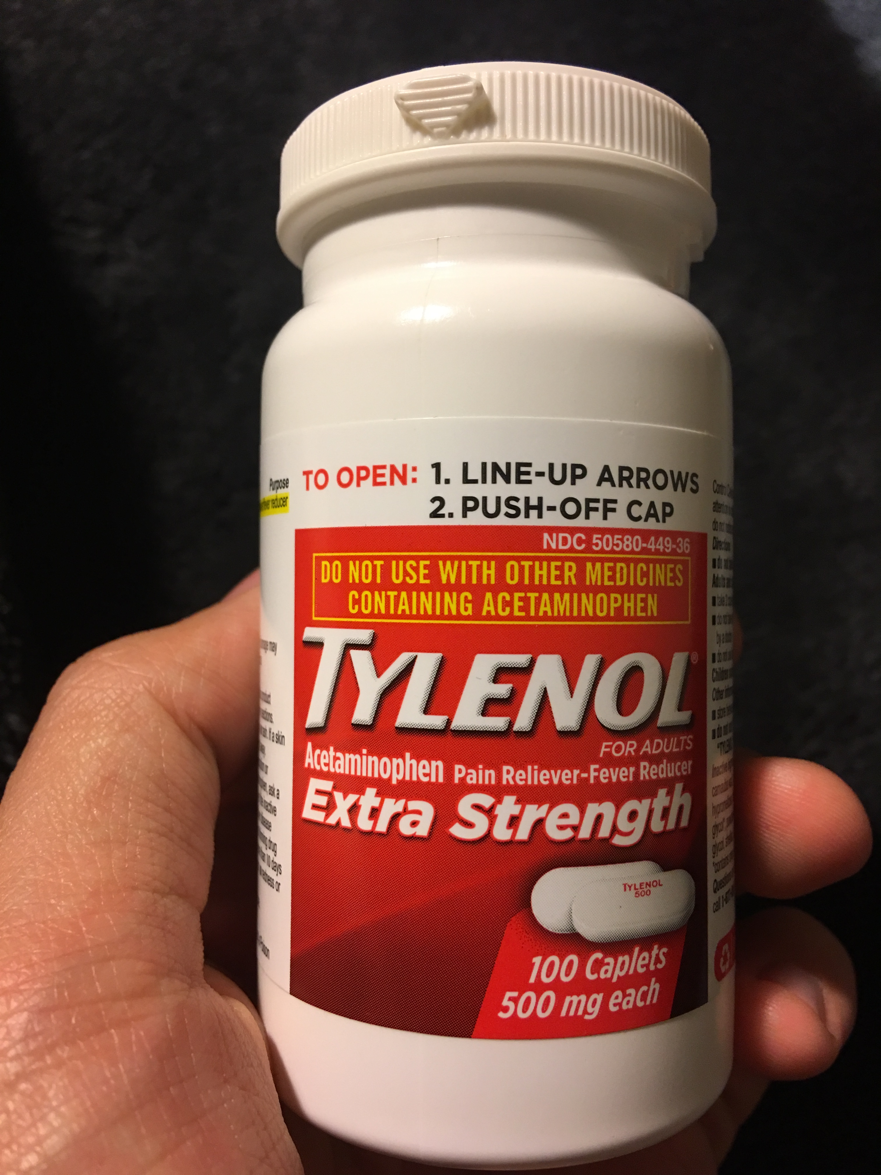 Tylenol extra strength